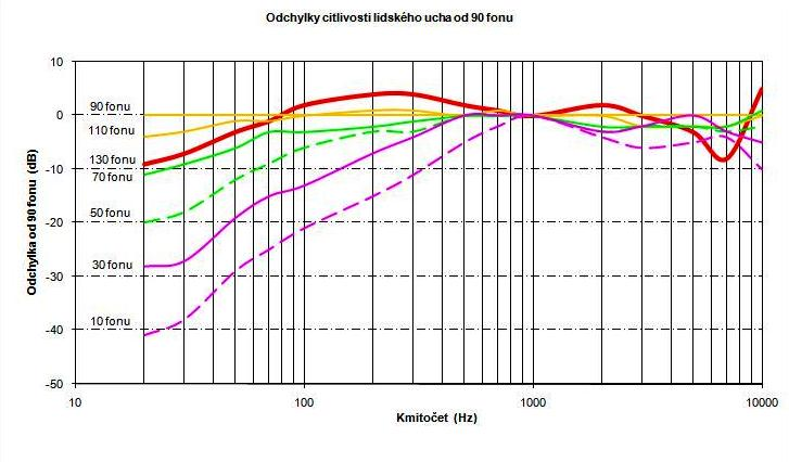 Loudness curves of human hearing.